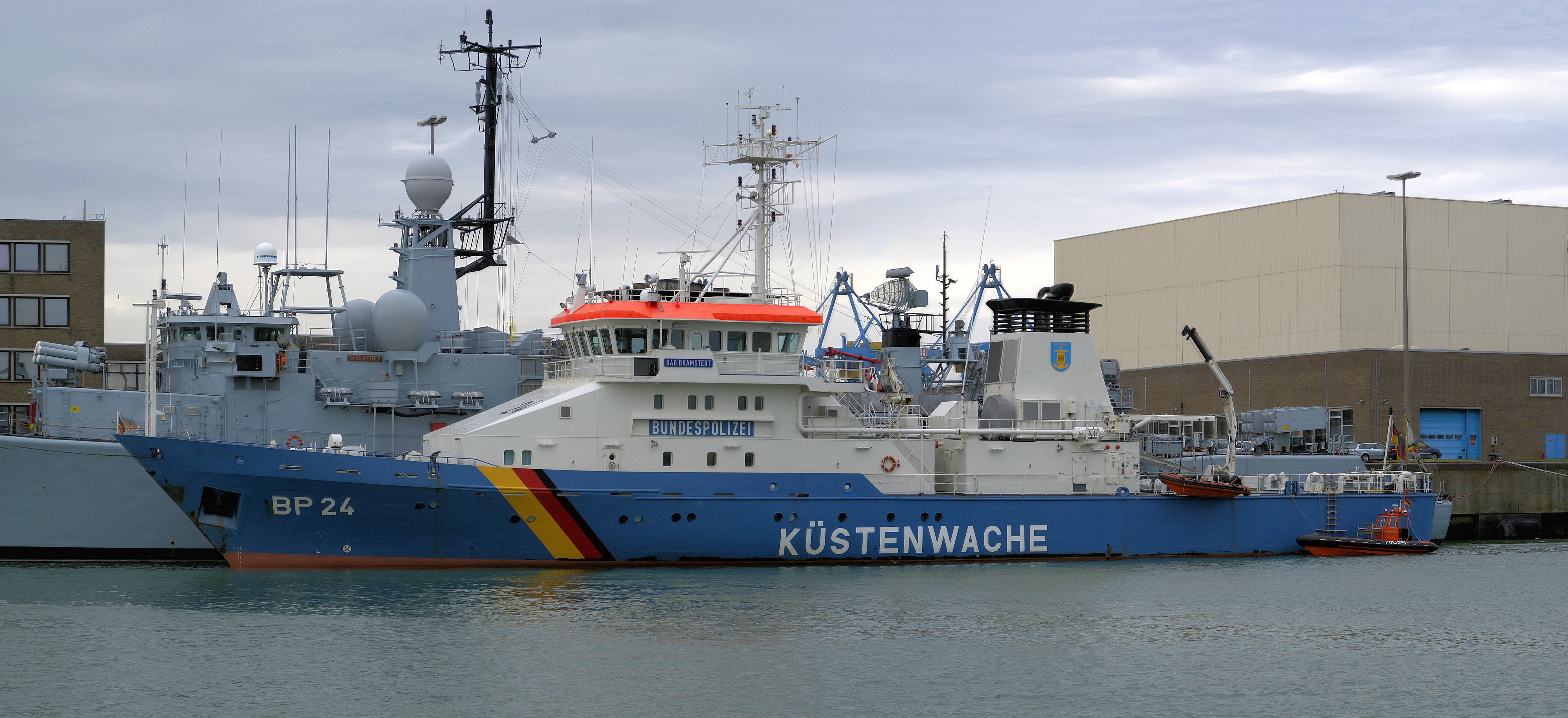 Bad Bramstedt (BP24). German Police Coastguard ship in Zeebrugge military port. IMO number : 9252620 Call Sign : DBGX Gross tonnage : 1030 Year of build : 2002